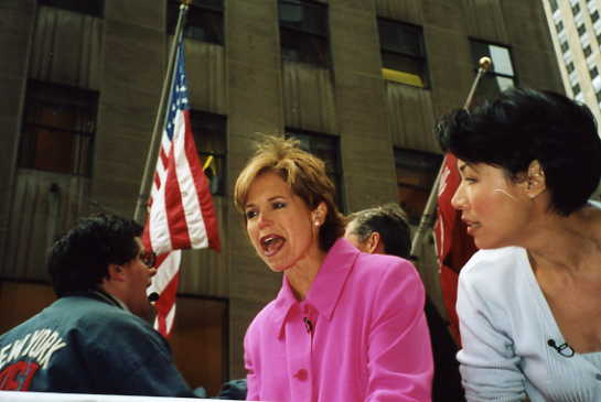 Television news presenters Katie Couric and Ann Curry in New York